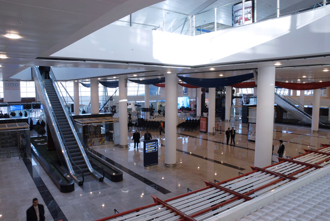 The interior of the Tbilisi International Aiport, Georgia